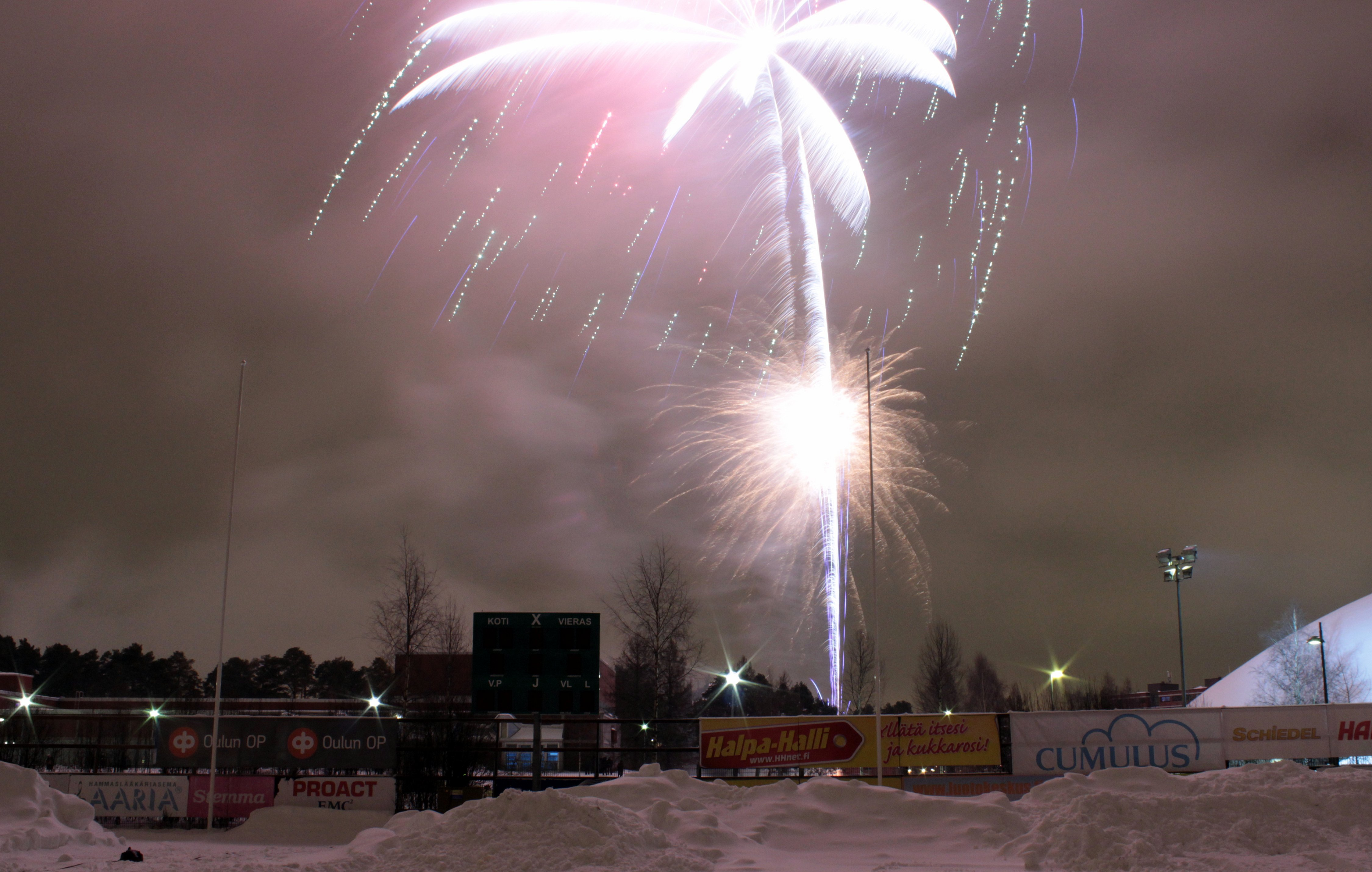 New Year's Eve fireworks in Raksila, Oulu.